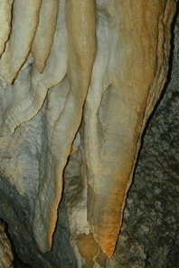 Flowstone Drapery, Timpanogos Cave NM